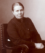 Portrait of the Danish women's rights activist Elisabeth Grundtvig (1856-1945)